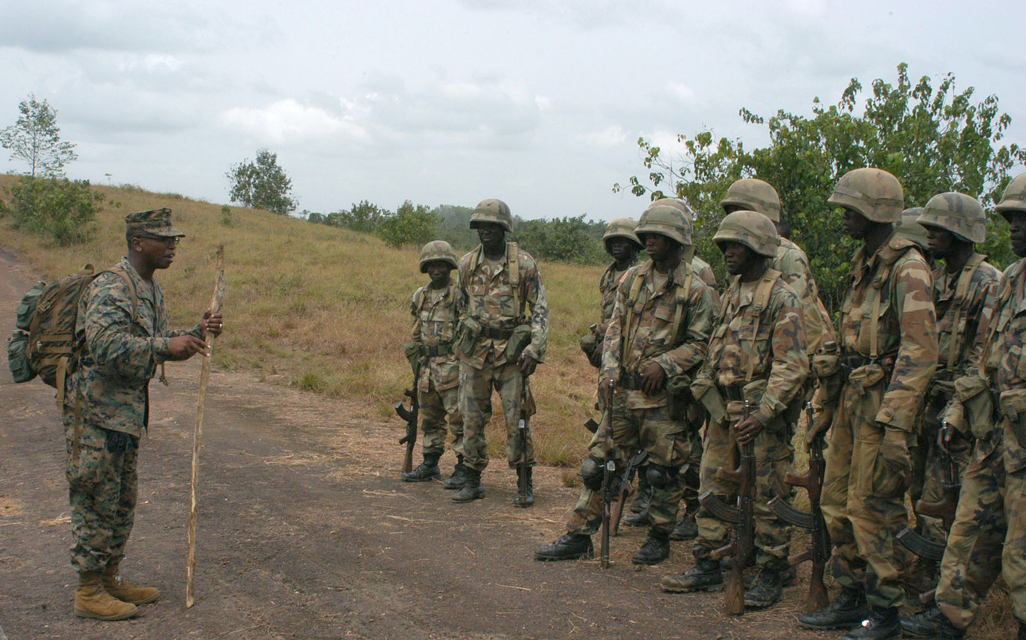 United States Marine Maj. Keith Vital speaks to the Armed Forces of Liberia (AFL) soldiers with Charlie Company, 1st Battalion about their mission and progress during a field training exercise (FTX) at Camp Sandee S. Ware in Careysburg District, Liberia. The FTX was a company-wide exercise that emphasized platoon-level decision making. This exercise helps to prepare these soldiers to meet Army Readiness Training Evaluation Program (ARTEP) standards by the end of the summer. Photo Date Taken: 2/25/2009 Unit: Marine Forces Africa Photo ByLine: Sgt. Elsa Portillo Photo VRIN: 090304-M-0378P-011 accessed November 27, 2010